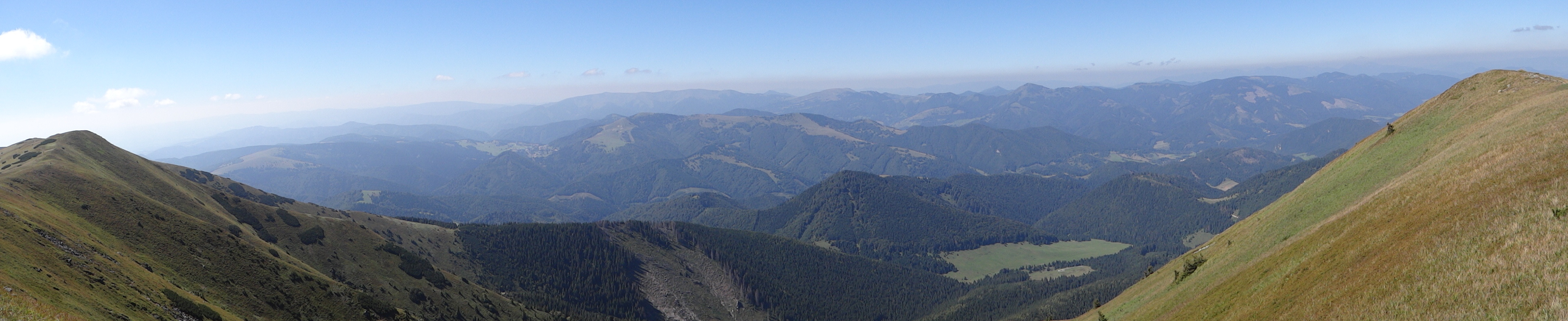 Vew from Veľká Chochuľa